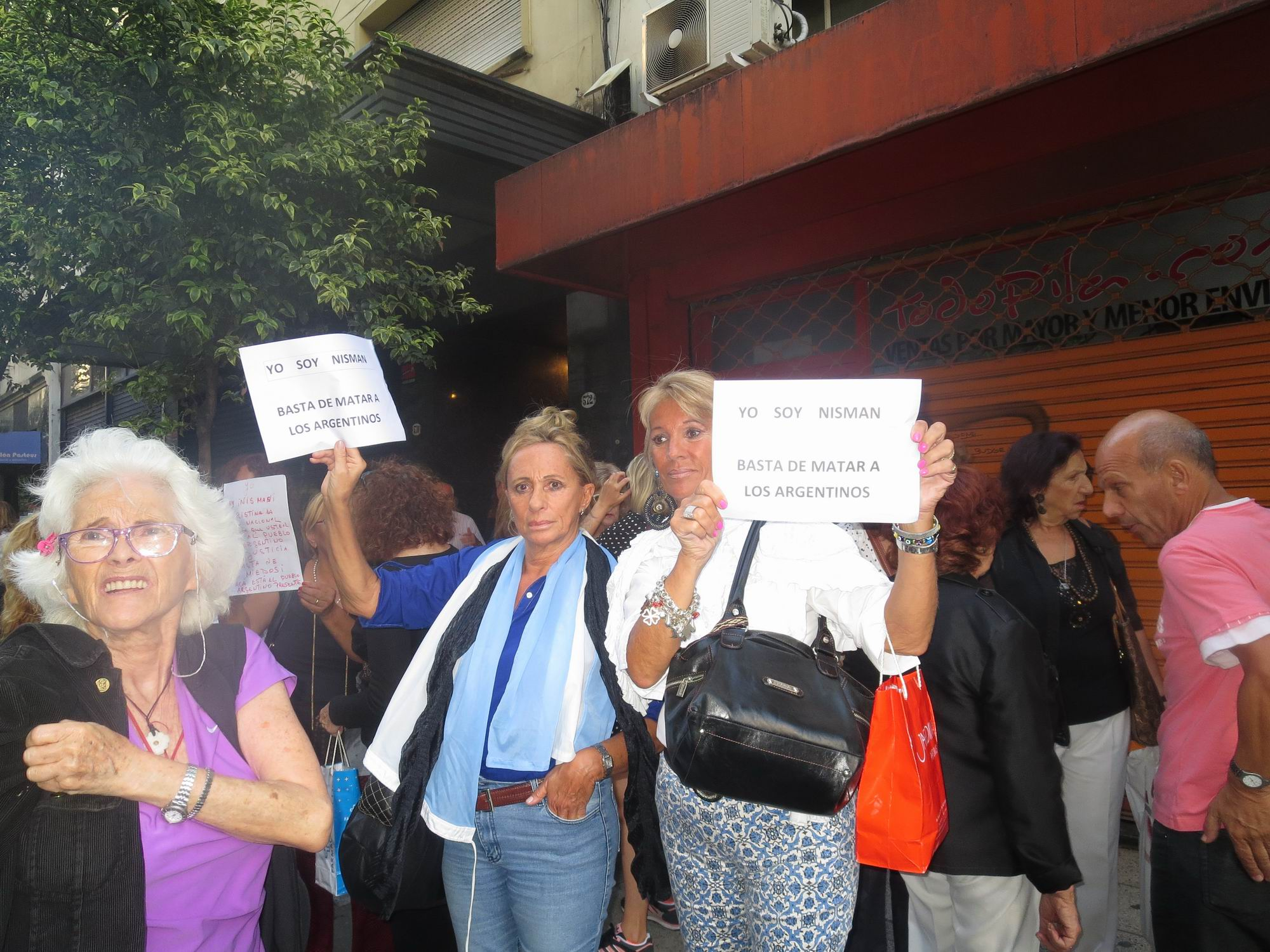 Argentines have been taking to the streets in 2015 to demand justice for the dead prosecutor Alberto Nisman